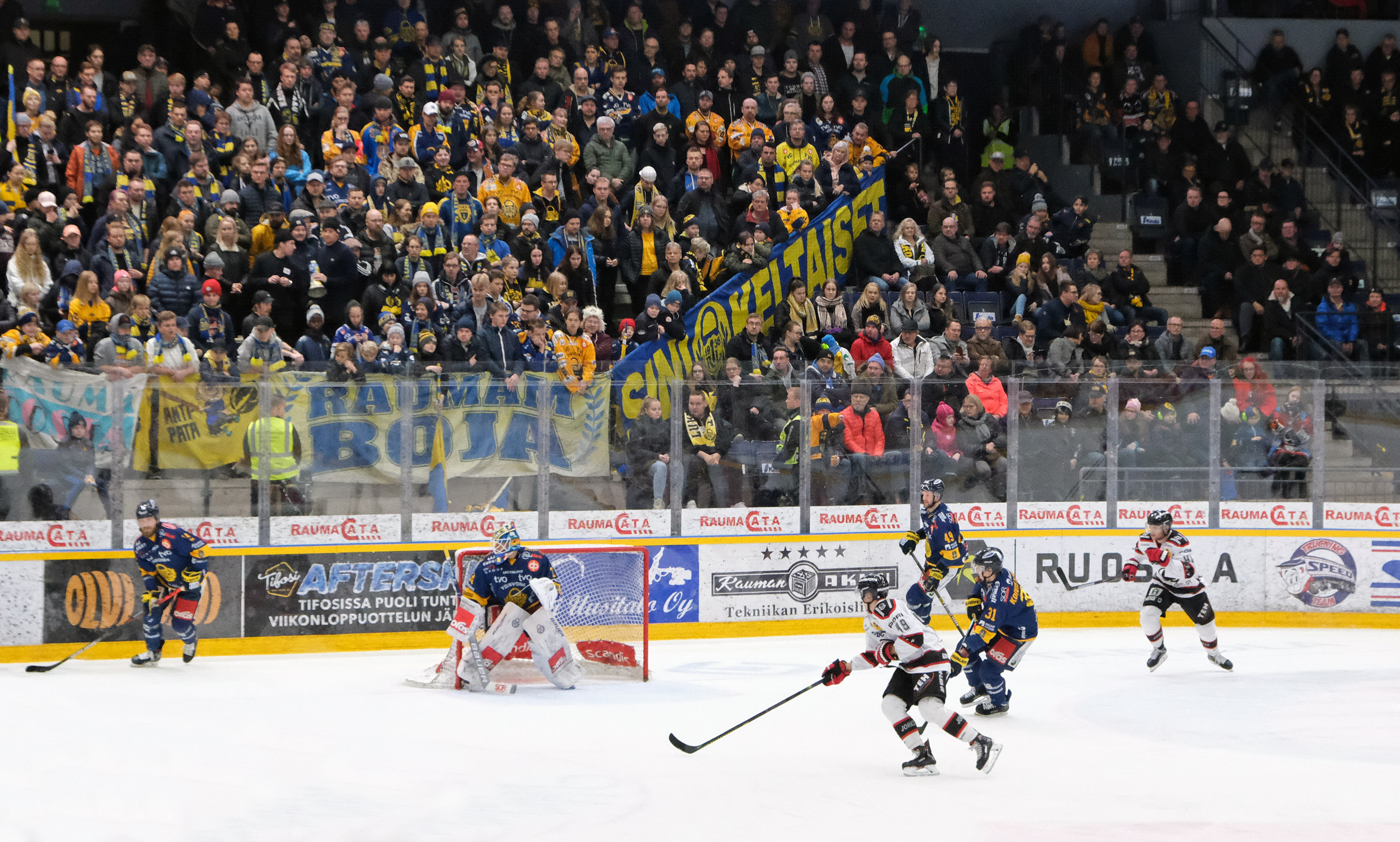 Lukko-Ässät 30-11-19